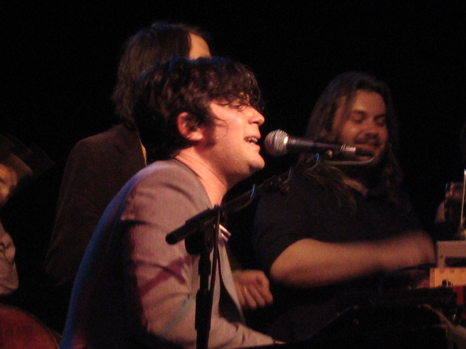 Ed Harcourt at Wolverhampton Wulfrun Hall 04.06.2006Ed Harcourt